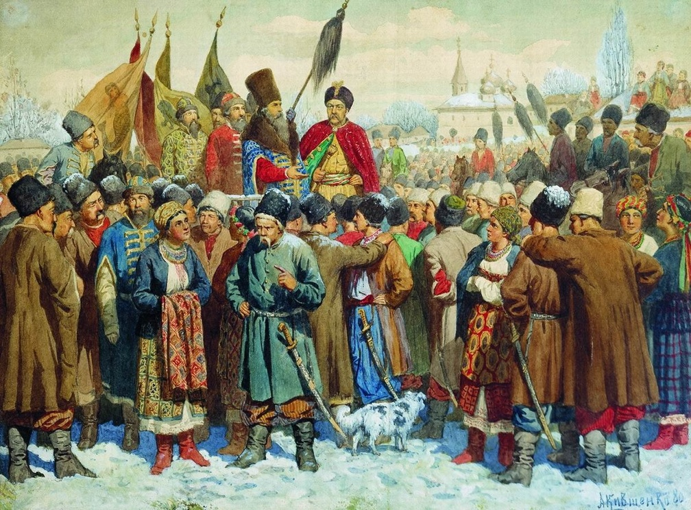 Pereyaslav Rada. Reunification of Great and Little Russia ("Ukraine").